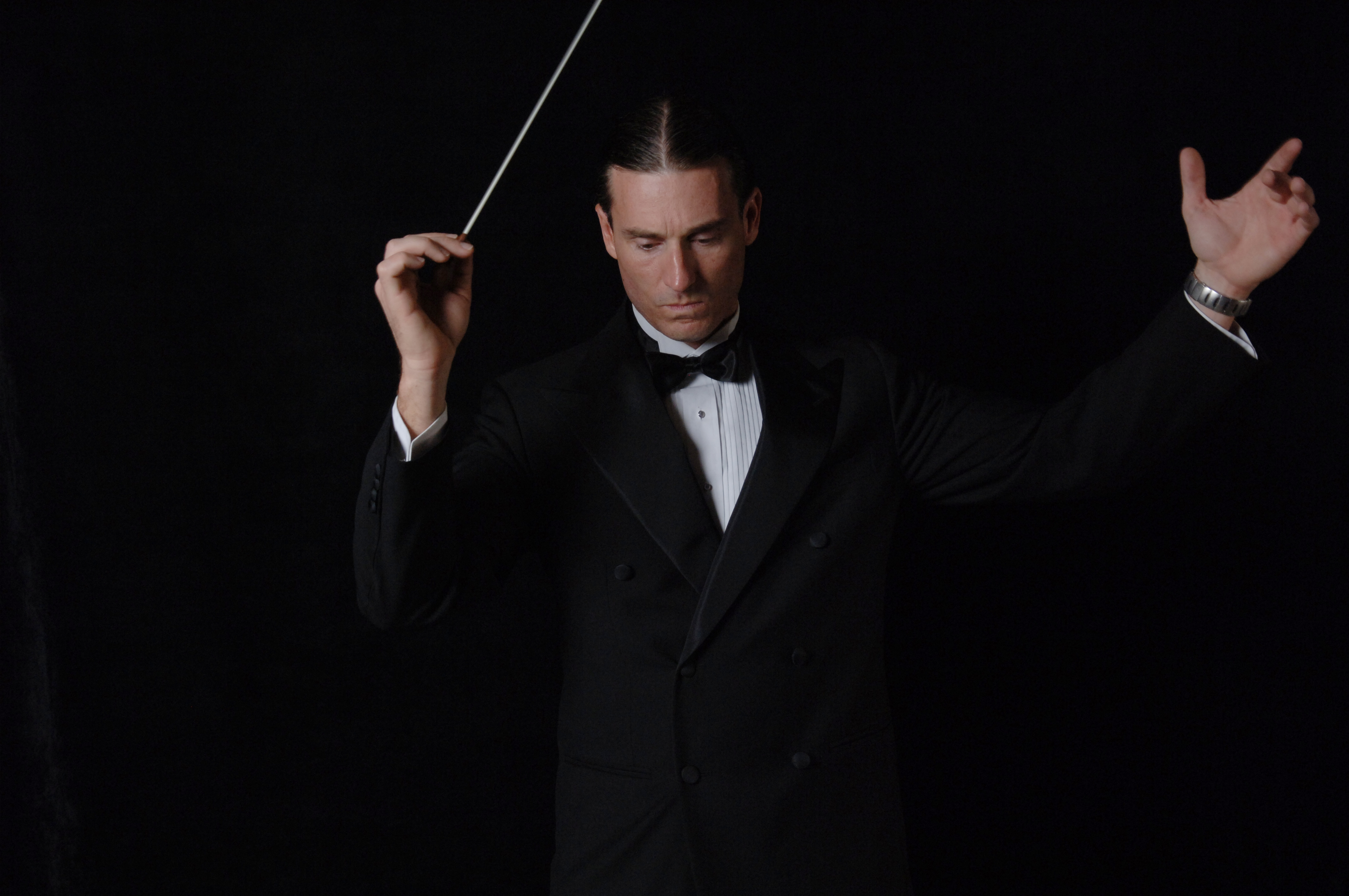 Maestro Benjamin Wade: Publicity photo taken in 2010